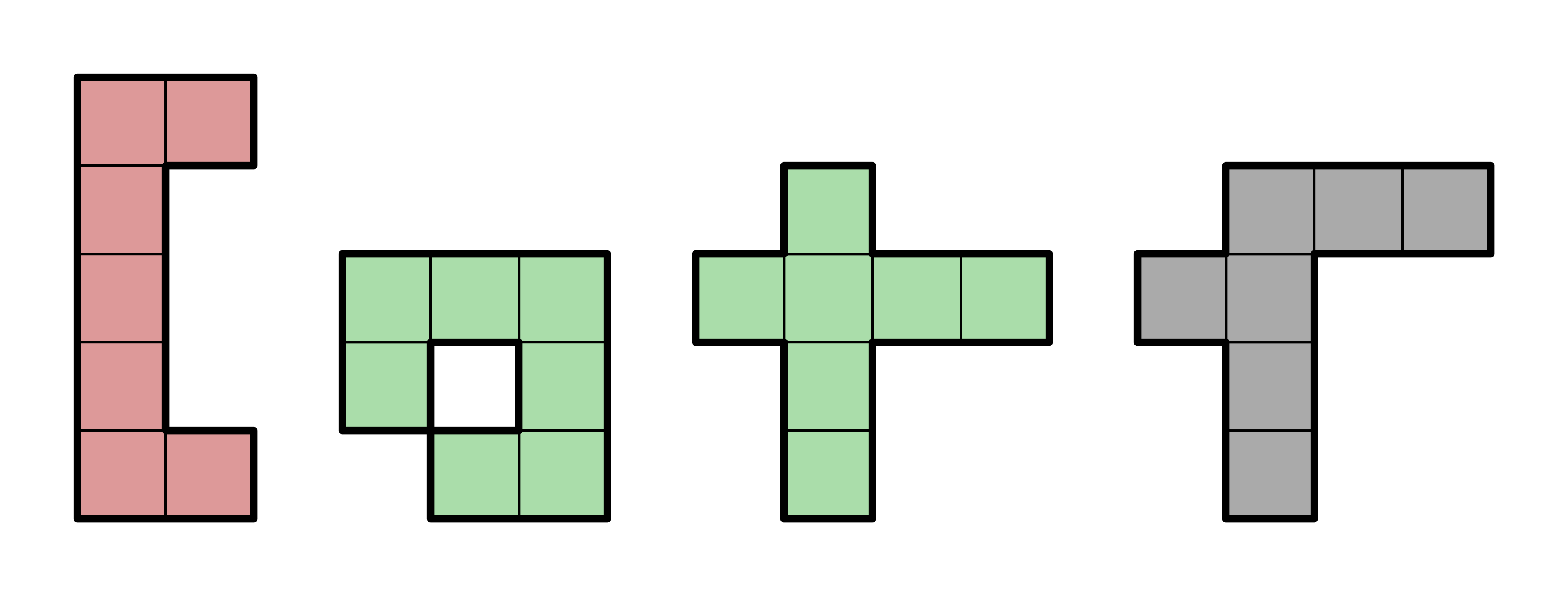 Image of the four heptominoes which are incapable of tiling the plane.